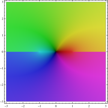 The arcsin function on the complex plane